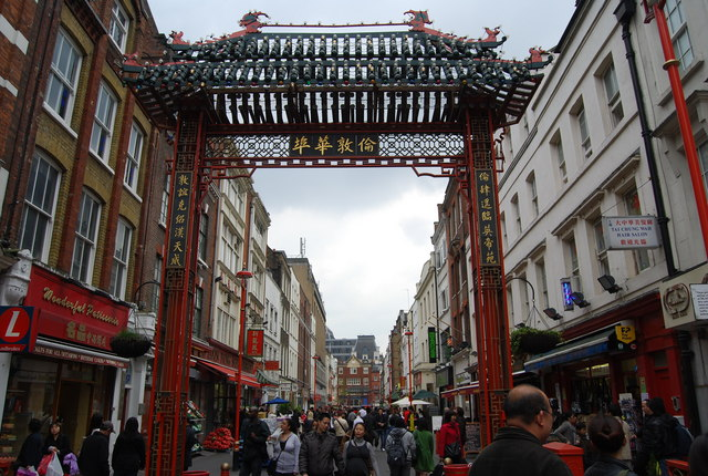 Chinese gate, Gerrard St The entrance to Chinatown